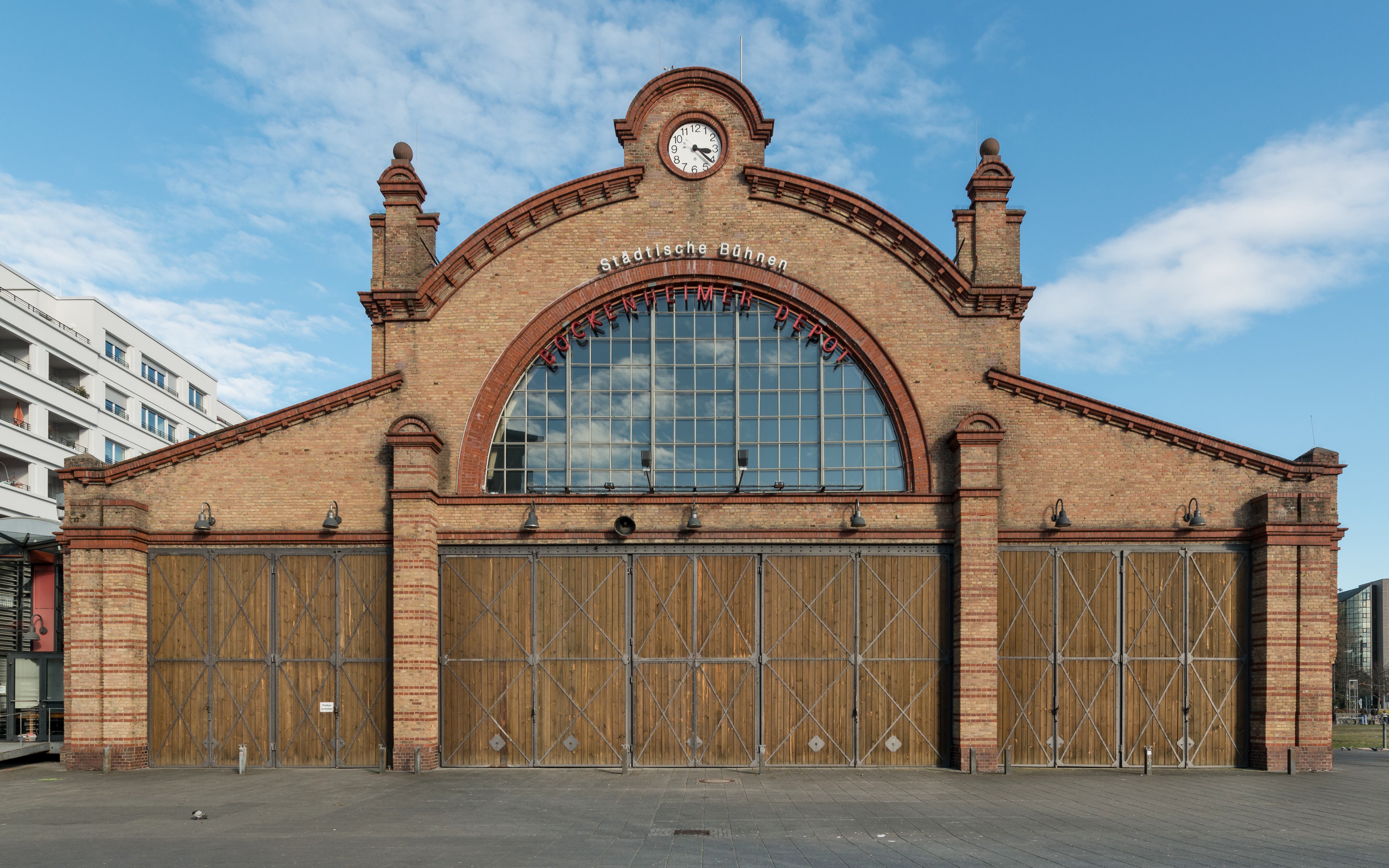 A west view of the Bockenheimer Depot, Frankfurt am Main. The building formerly was a tram depot, but is now used as a theater